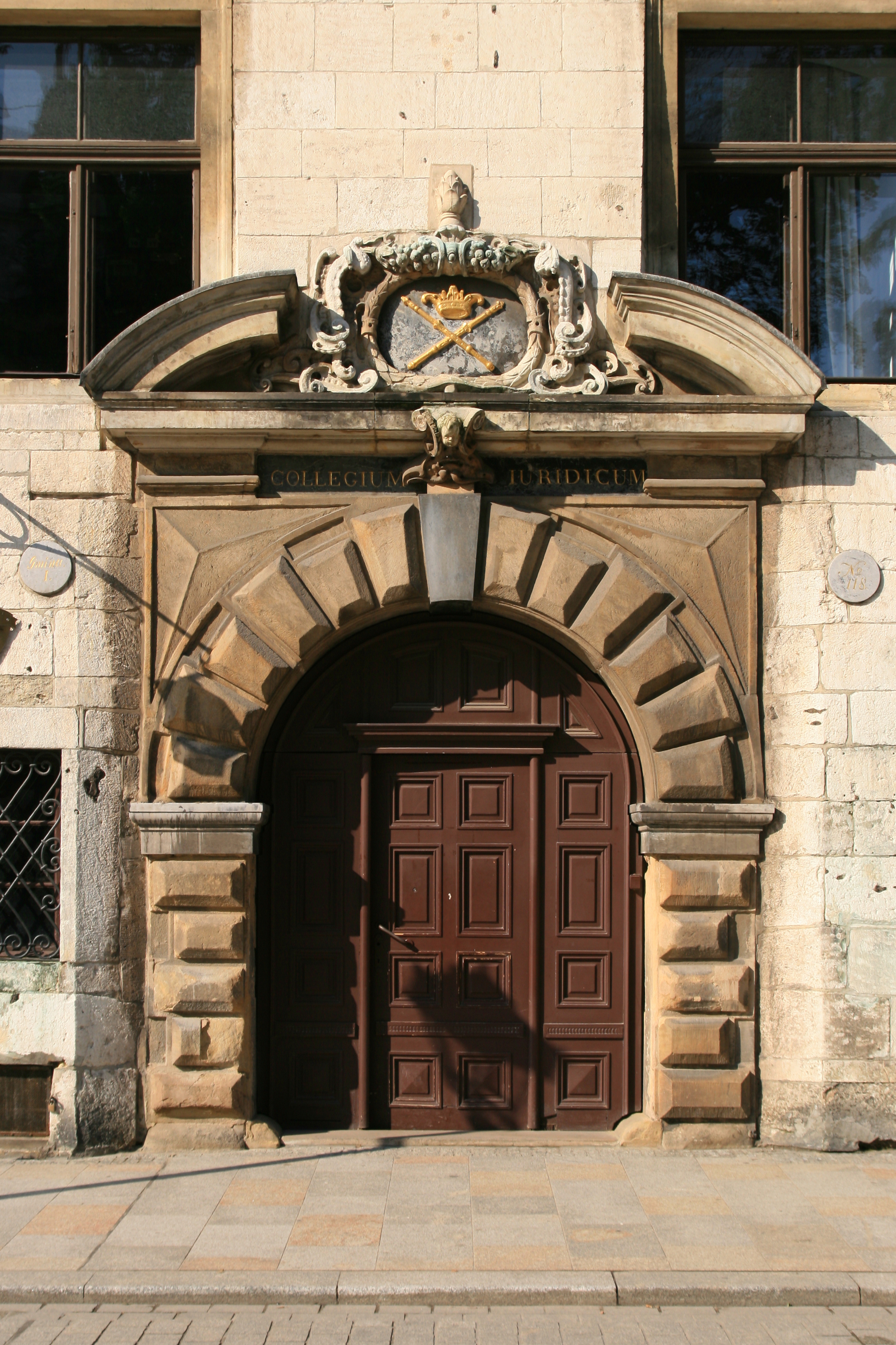 Gate to Collegium Iuridicum in Kraków (Poland).